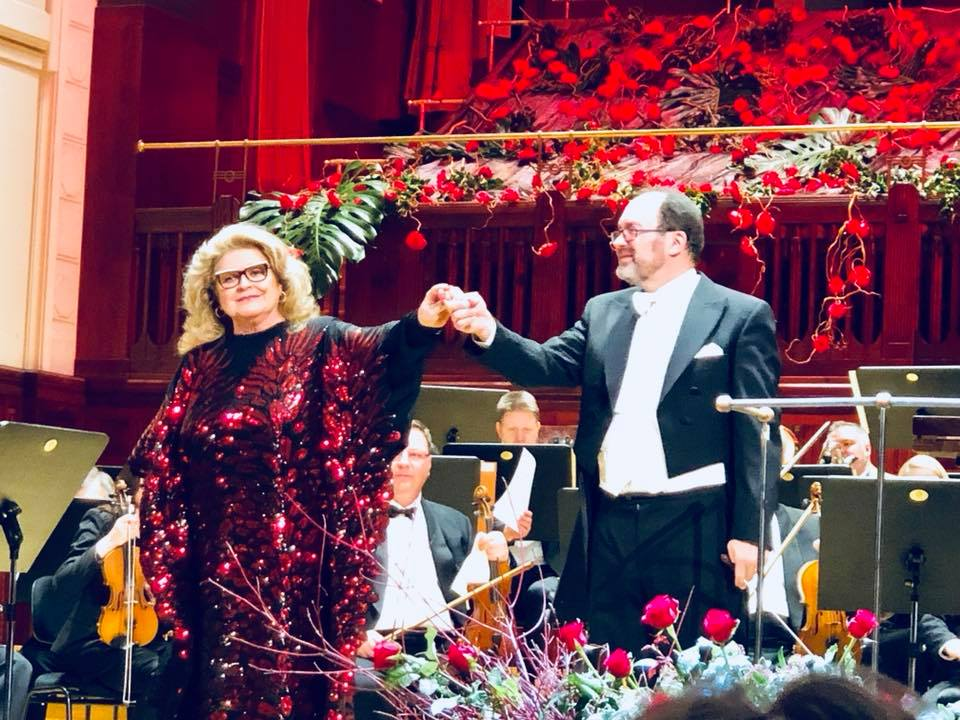 Czech operatic soprano Gabriela Beňačková with conductor Dušan Štefánek at the concert in the Smetana Hall, Municipal House Prague, 5 march 2018.